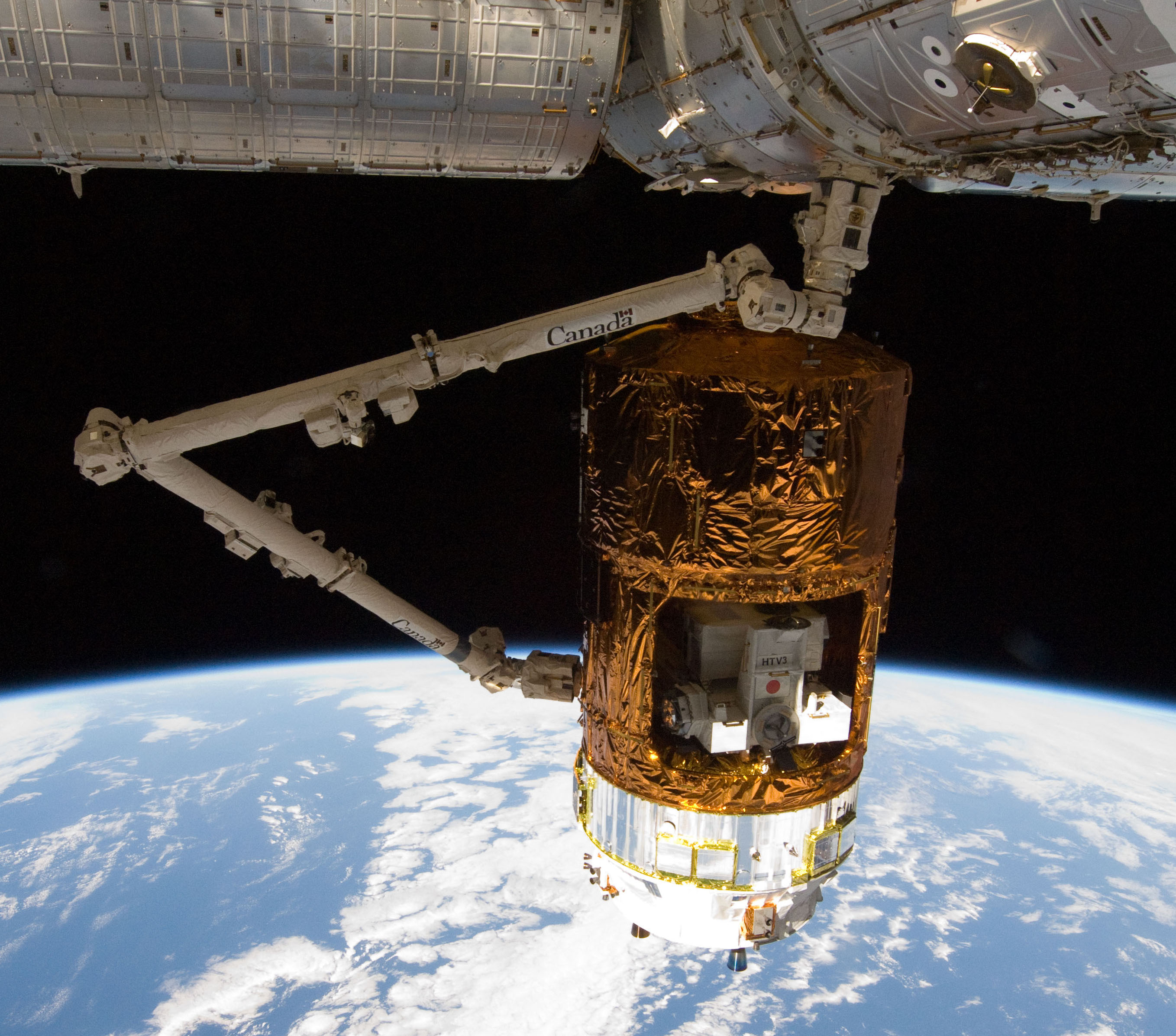 ISS032-E-010444 (27 July 2012) --- In the grasp of the International Space Station's Canadarm2, the unpiloted Japan Aerospace Exploration Agency (JAXA) H-II Transfer Vehicle (HTV-3) is berthed to the Earth-facing port of the station's Harmony node. The attachment was completed at 10:34 a.m. (EDT) on July 27, 2012. Earth's horizon and the blackness of space provide the backdrop for the scene.